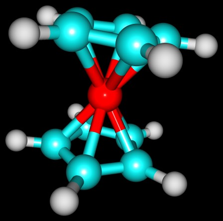 Ferrocene - visualization with ChemCraft program